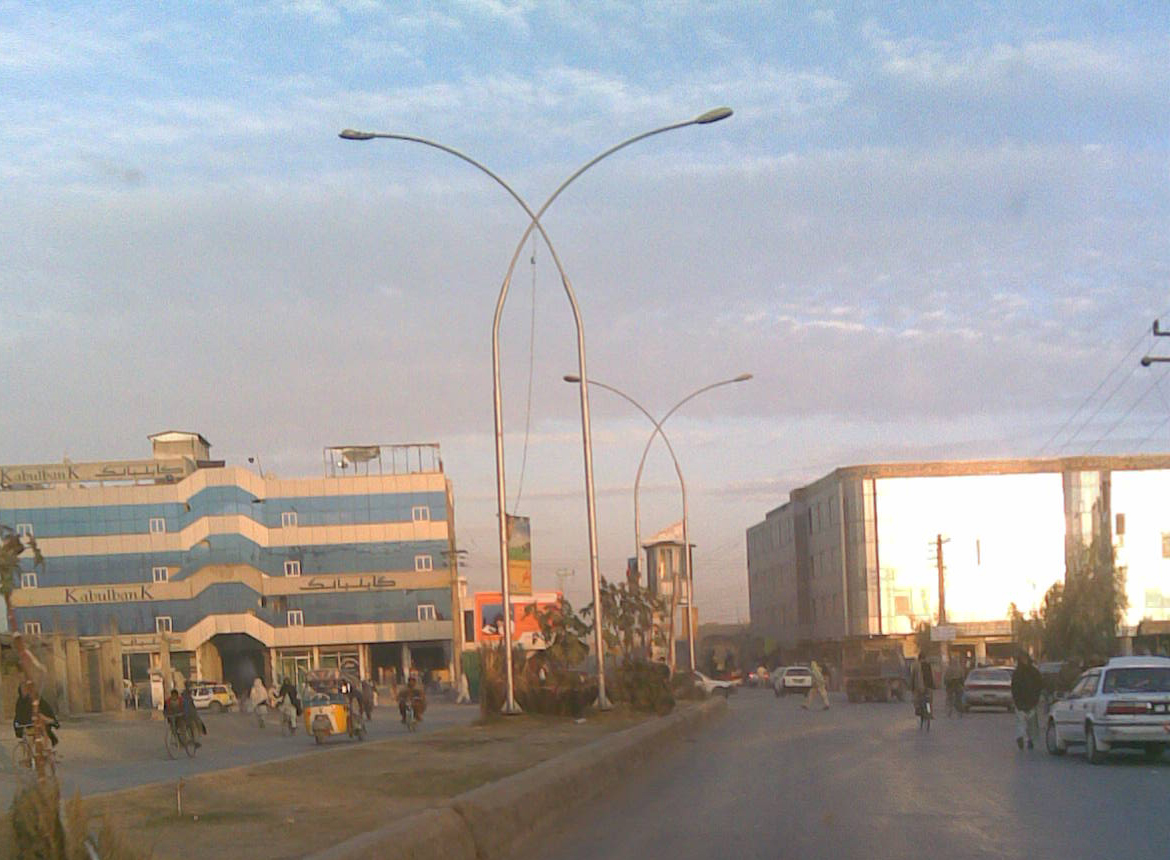 Street scene in Kandahar City, Afghanistan.